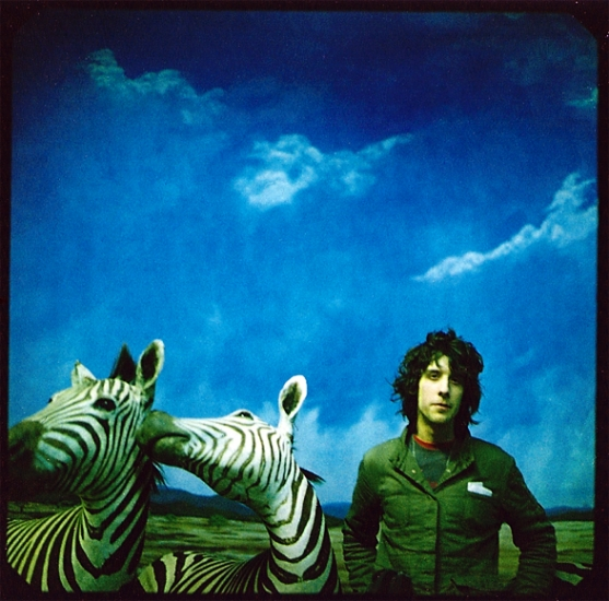 The American folk singer-songwriter David Strackany, also known as Paleo.